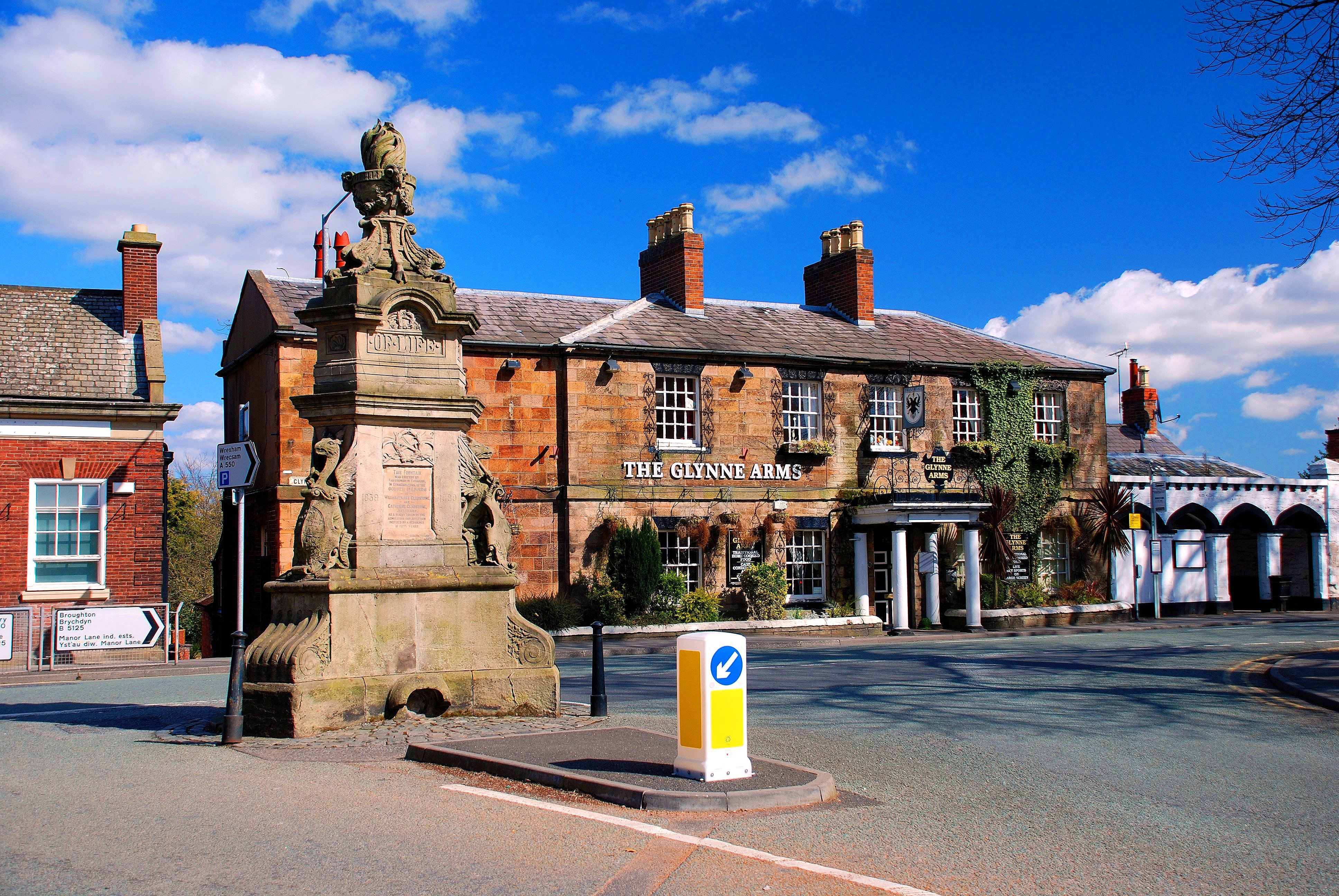 No 3, (The Glynne Arms Ph), Glynne Way (N Side) Wikidata has entry Q29492836 with data related to this item.